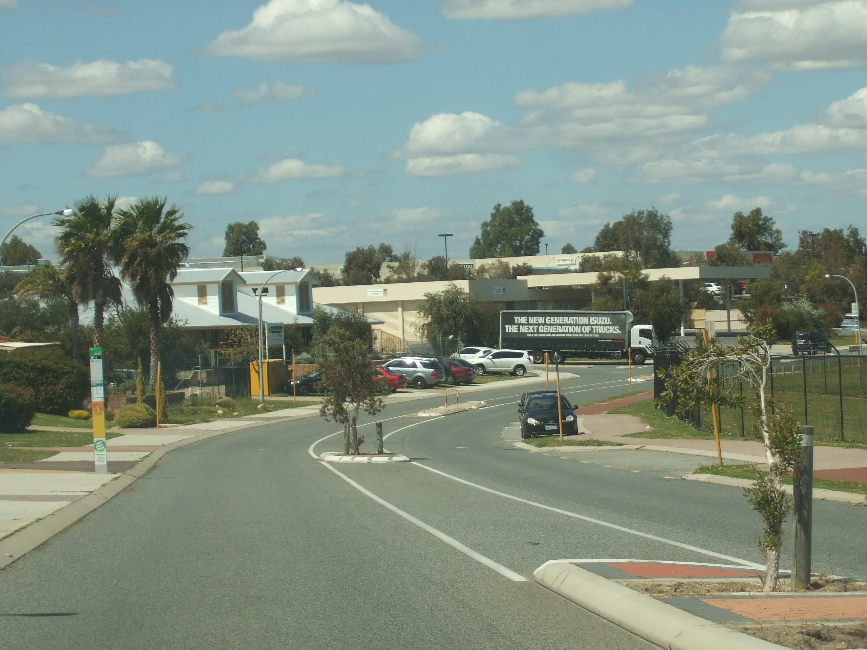 View south of the Merriwa Plaza on Baltimore Parade, Merriwa, Western Australia.